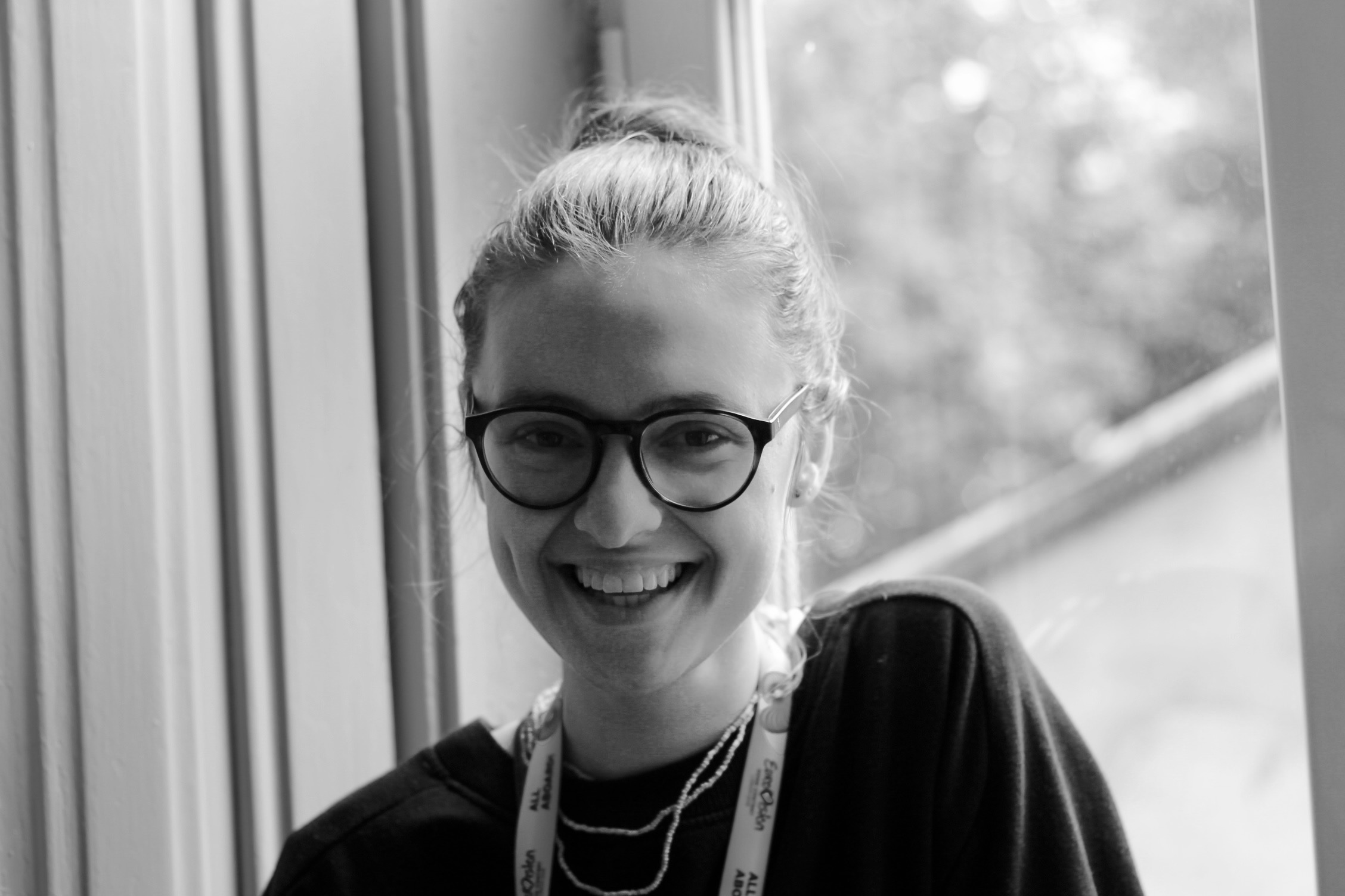 Lithuanian singer Ieva Zasimauskaitė in Lisbon one week before the start of Eurovision Song Contest 2018